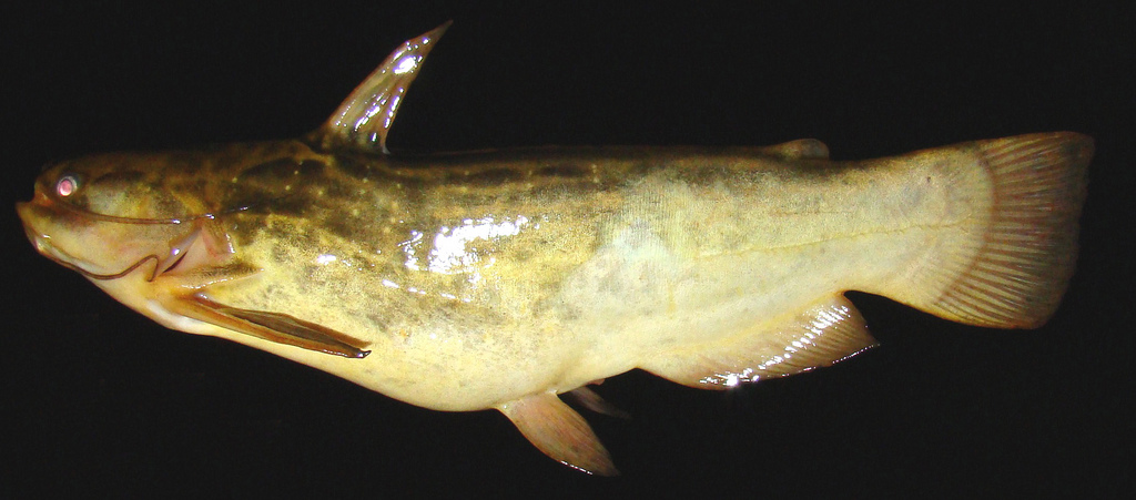 Trachelyopterus lucenai from a dam in Rio Grande do Sul, Brazil, photographed on December 2008.